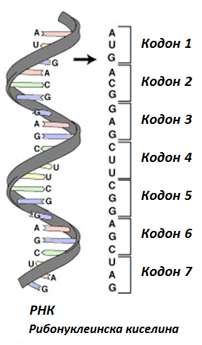 Serbian translation of the File:RNA-codons.png.